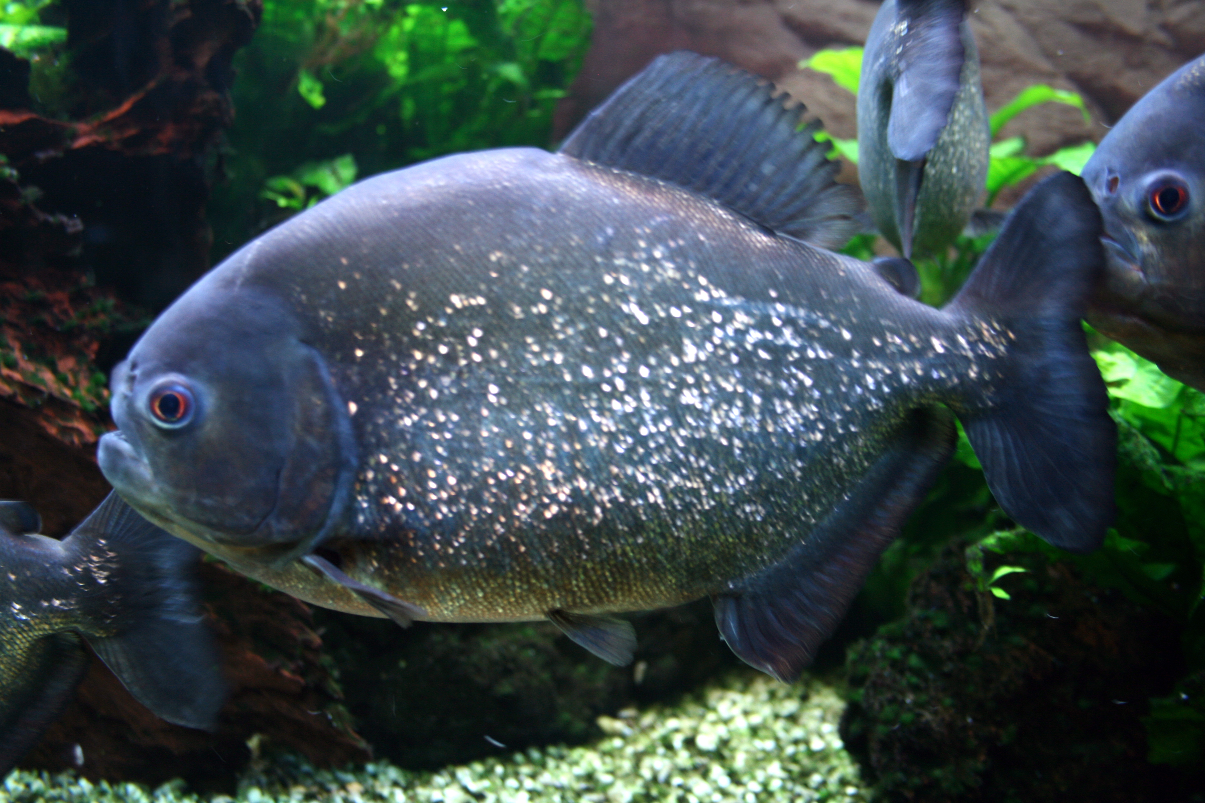 Fish Red-bellied piranha Pygocentrus nattereri in Prague sea aquarium, Czech Republic